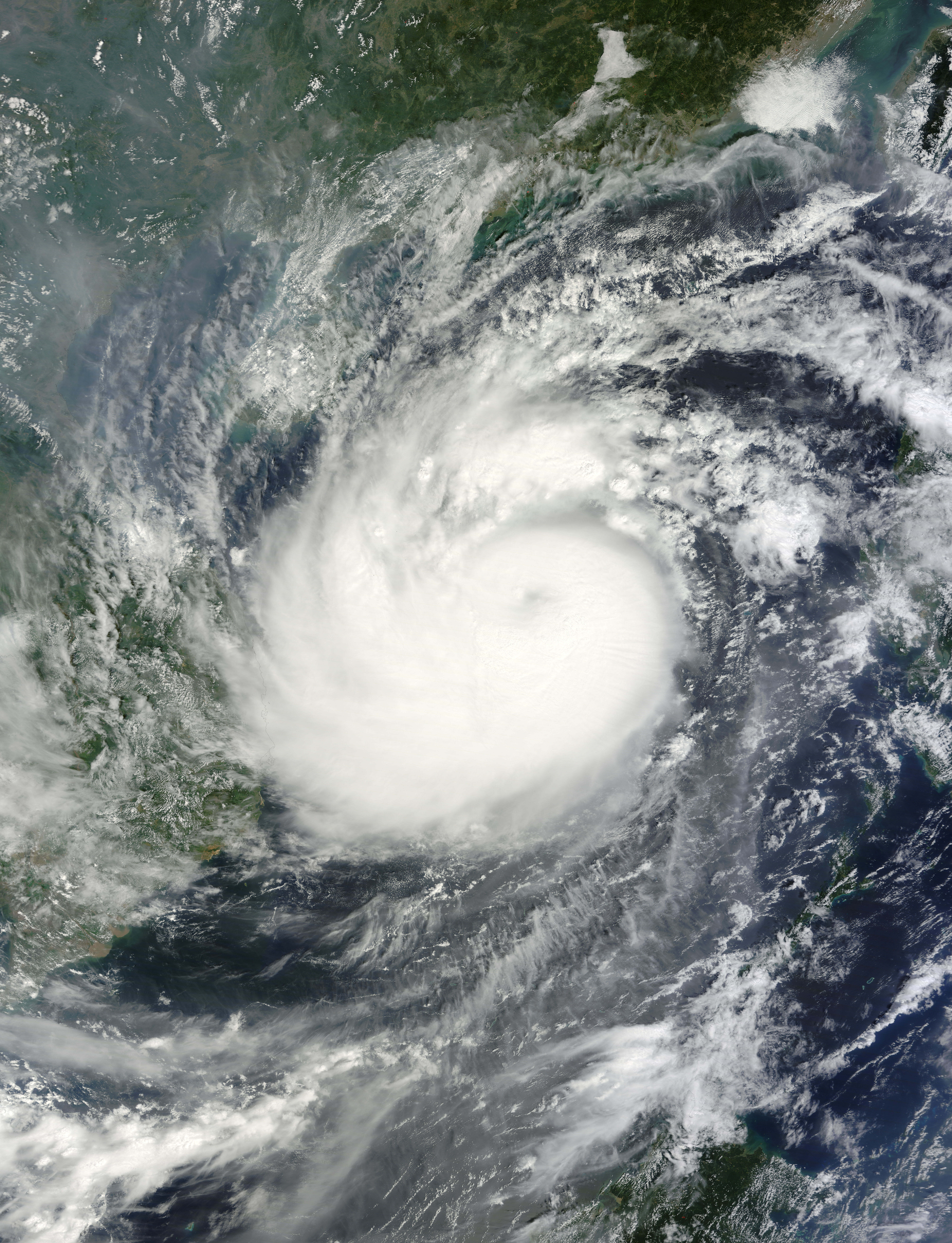 Typhoon Nari on October 13,2013